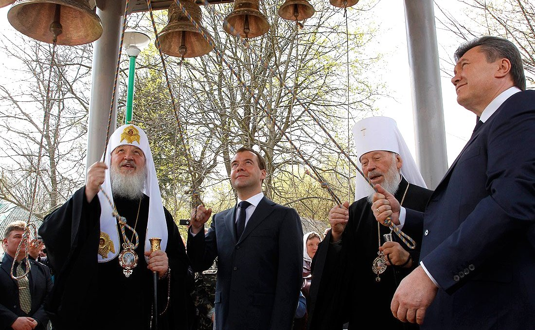 Patriarch Kirill of Moscow and All Russia, President of Russia Dmitry Medvedev, Metropolitan Vladimir of Kiev and All Ukraine and President of Ukraine Viktor Yanukovych (left) ring the bells after the prayer service at St Elijah Church in Chernobyl.